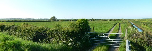 Malltraeth Marsh or Cors Ddyga near Morfa Brennin. A view of the flat land known as Malltraeth Marsh or Cors Ddyga near Morfa Brennin. This land was formerly a river estuary that has been reclaimed from the sea.